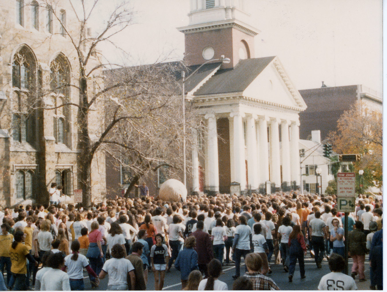 1974 Bladderball activities at Yale. The participants in the photograph are standing in Elm Street at and near its intersection with College Street. The Collegiate Gothic building at the viewer's left is Calhoun residential college|, the brick building with white Ionic columns| is now New Haven's Korean United Methodist Church, the building with white wooden siding and green shutters is the meeting hall of the senior/secret society Elihu|, and the taller stone-and-brick building at the viewer's far right, behind Elihu, is Hendrie Hall.